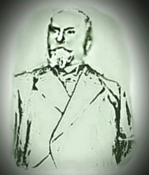 immagine di Emilio Bossi, realizzata a partire da fotografia del monumento a lui dedicato al paese natale, rielaborata e trasformata in un disegno, con programma digitale, e successivamente fatta apparire come antica fotografia dell'epoca, con apposito filtro.